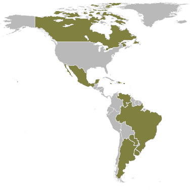 Participants of 2013 Men's FIBA Americas Championship